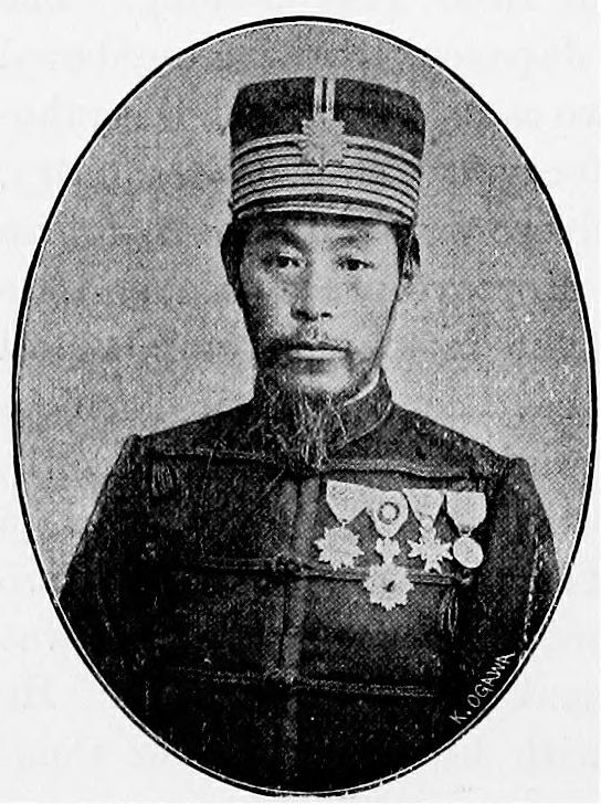 Major Okami